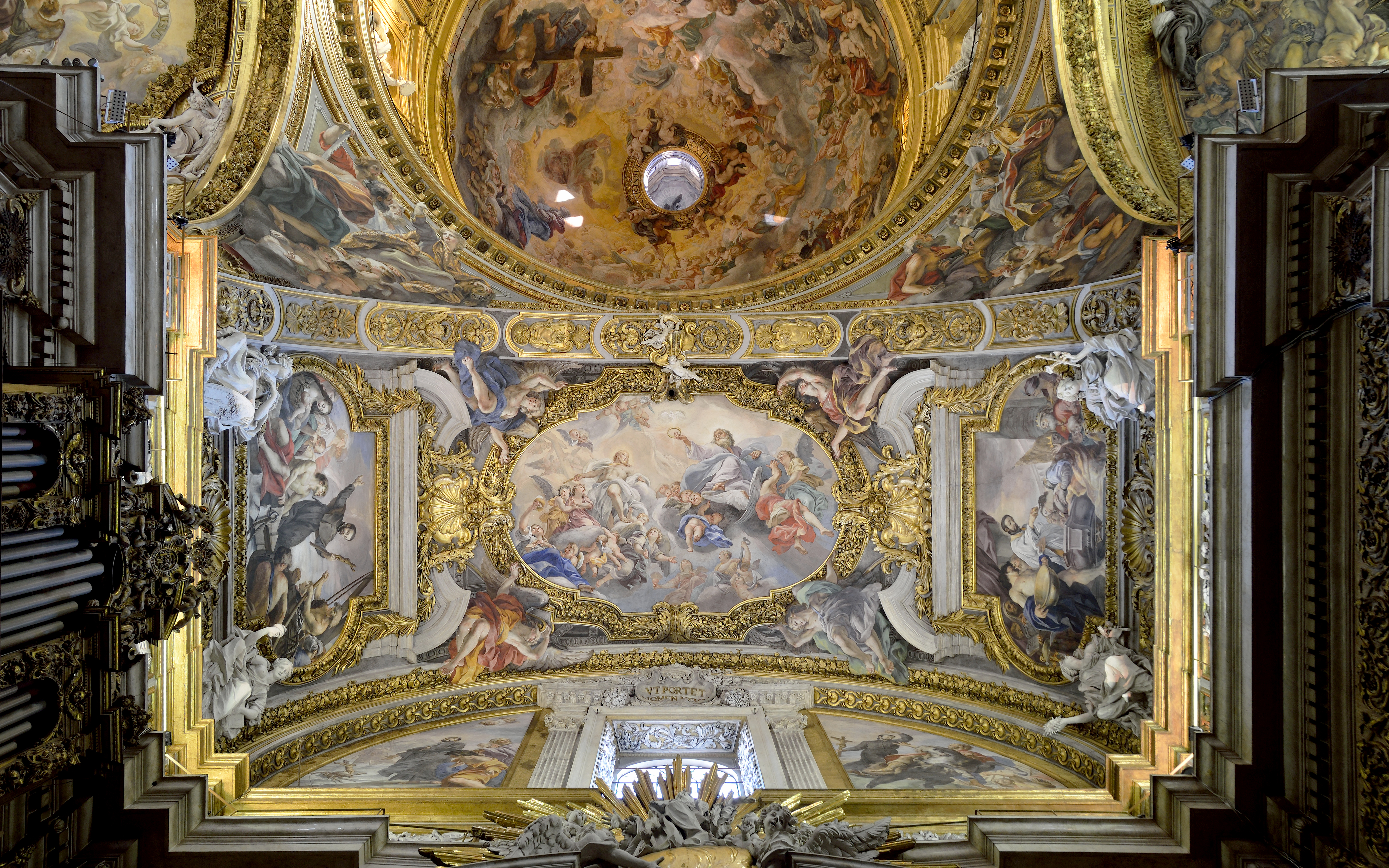 Giovanni Andrea Carlone, Chapel of St. Francis Xavier